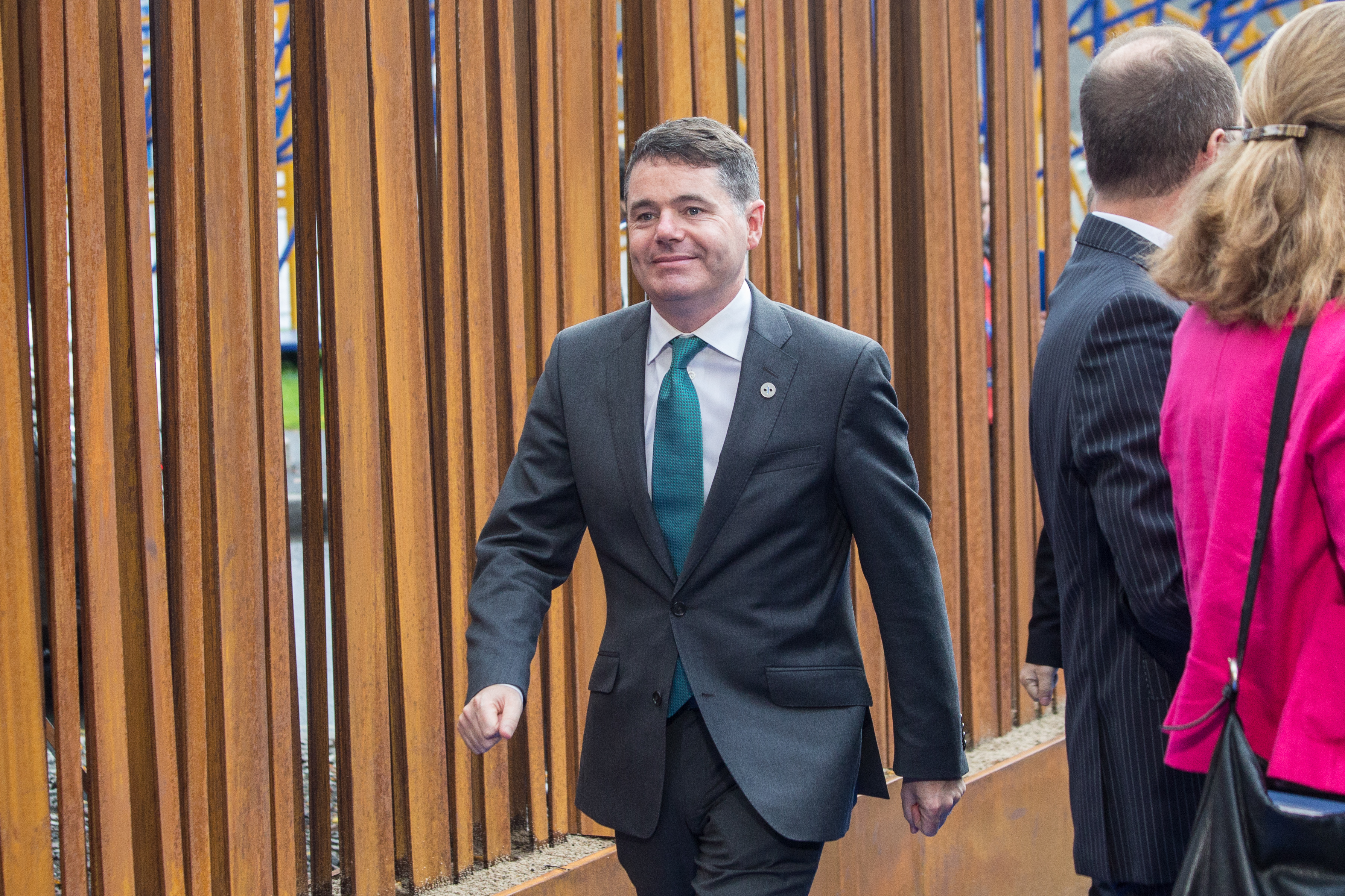 Paschal Donohue, Minister, Department of Finance, Ireland Photo: Aron Urb (EU2017EE)